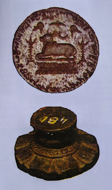 Padaviya Sanskrit bronze seal